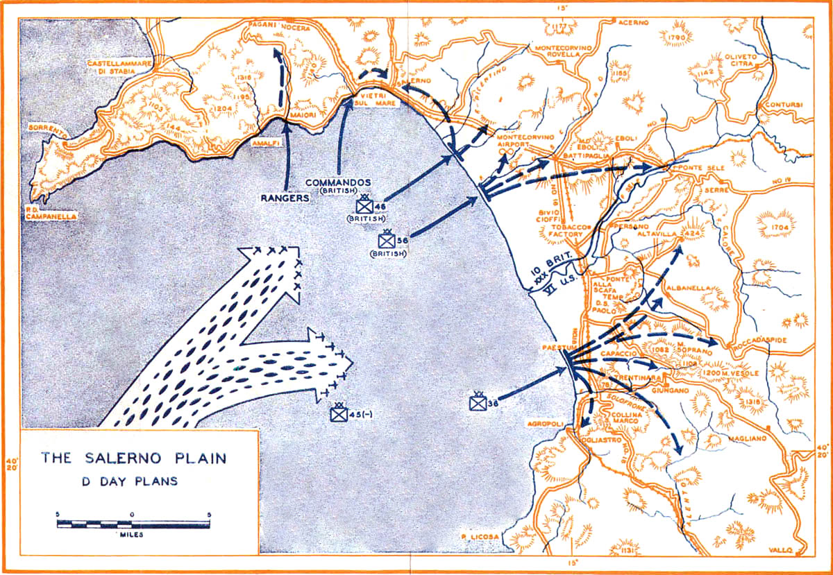 Plans for Allied Landings at Salerno 9 September 1943